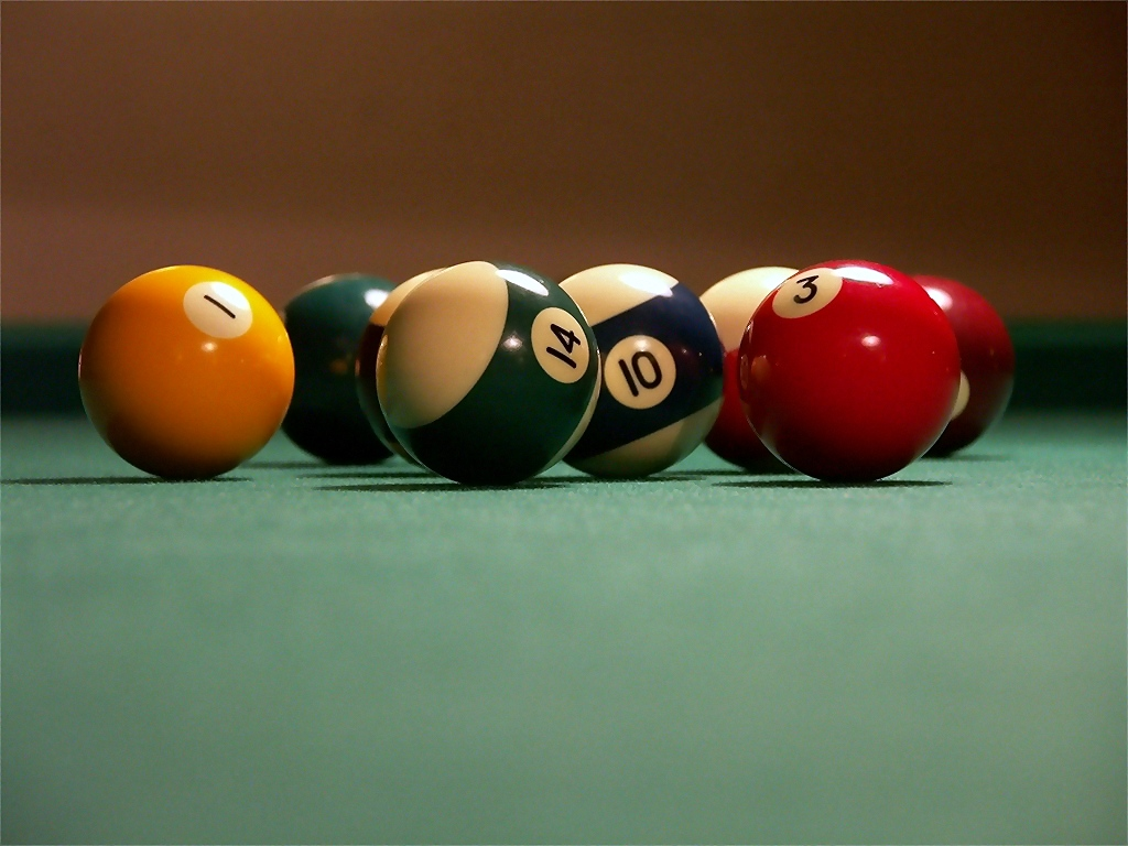 Close-up picture of billiard balls